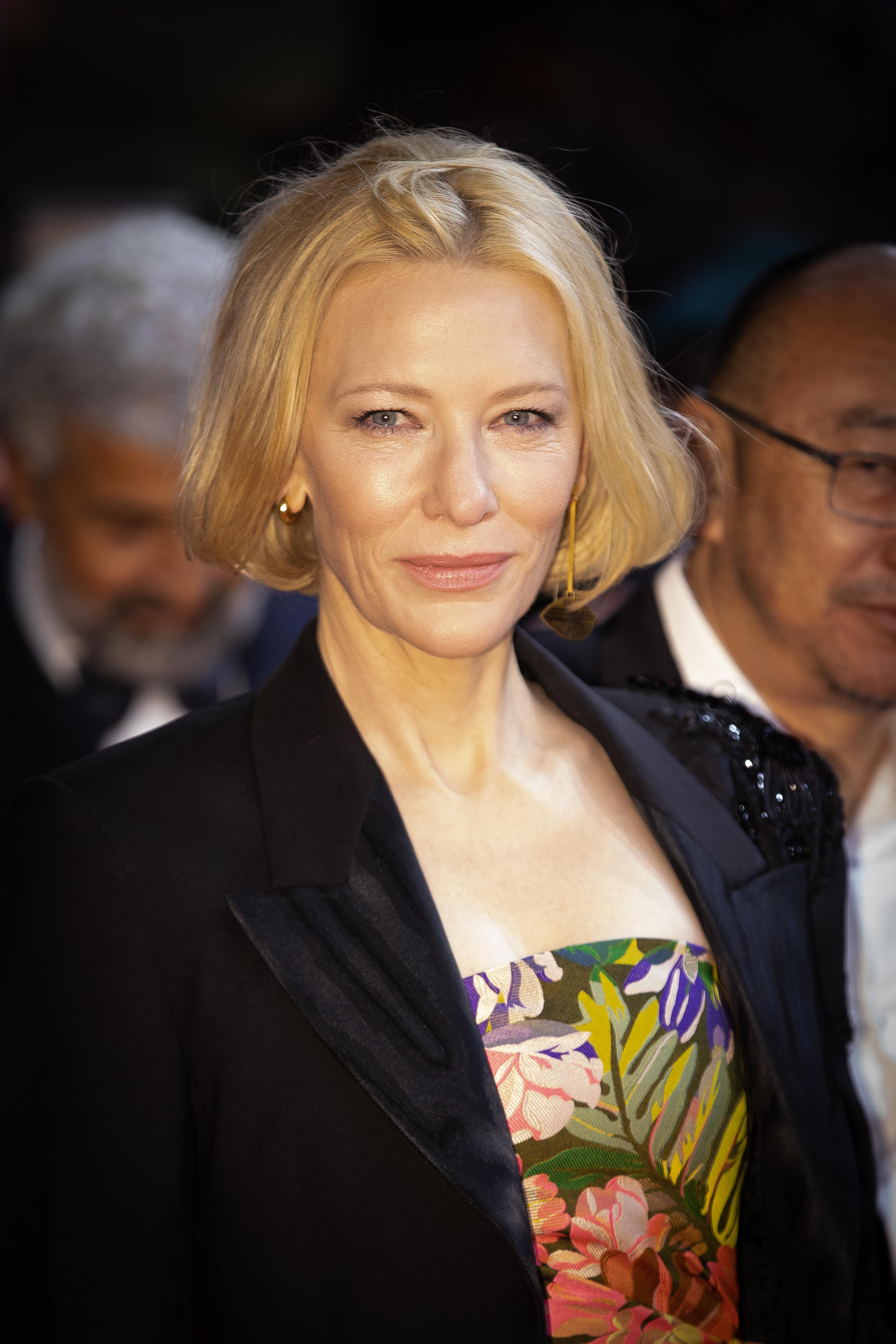 Actress Cate Blanchett at the Berlin Film Festival 2020